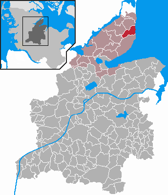 Locator maps of municipalities in Schleswig-Holstein - District Rendsburg-Eckernförde